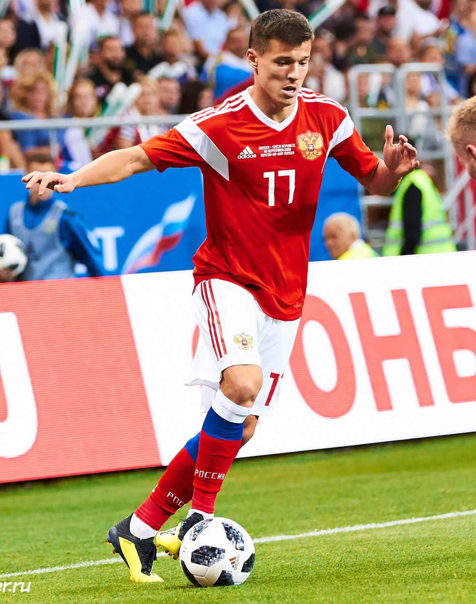 Russia vs. Czech Republic, 10 September 2018